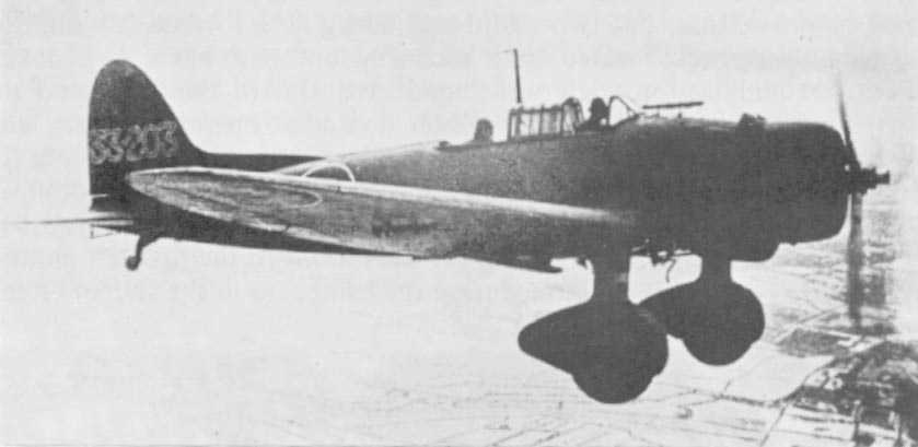 Aichi D3A1 in flight.